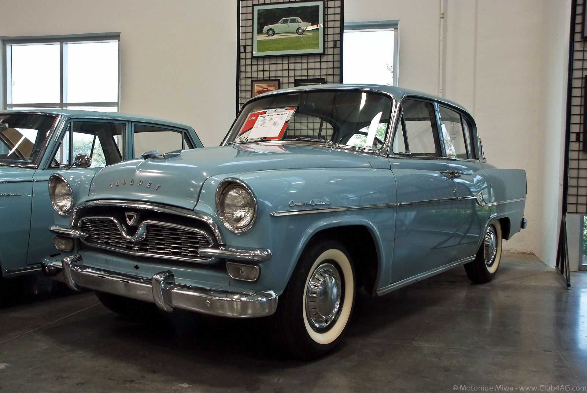 Toyopet Crown